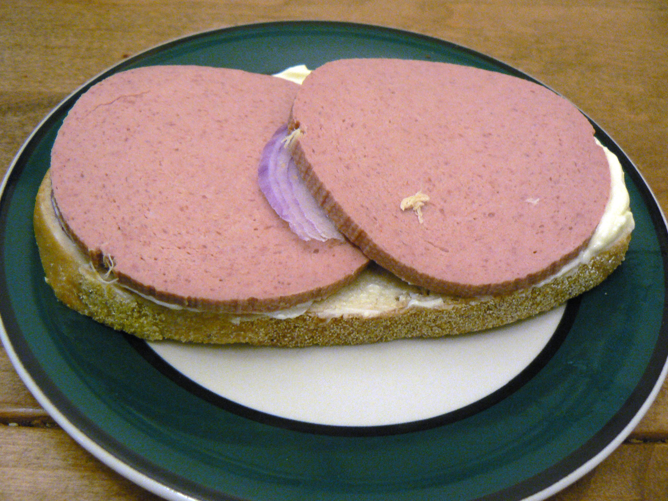 Liverwurst slices on bread